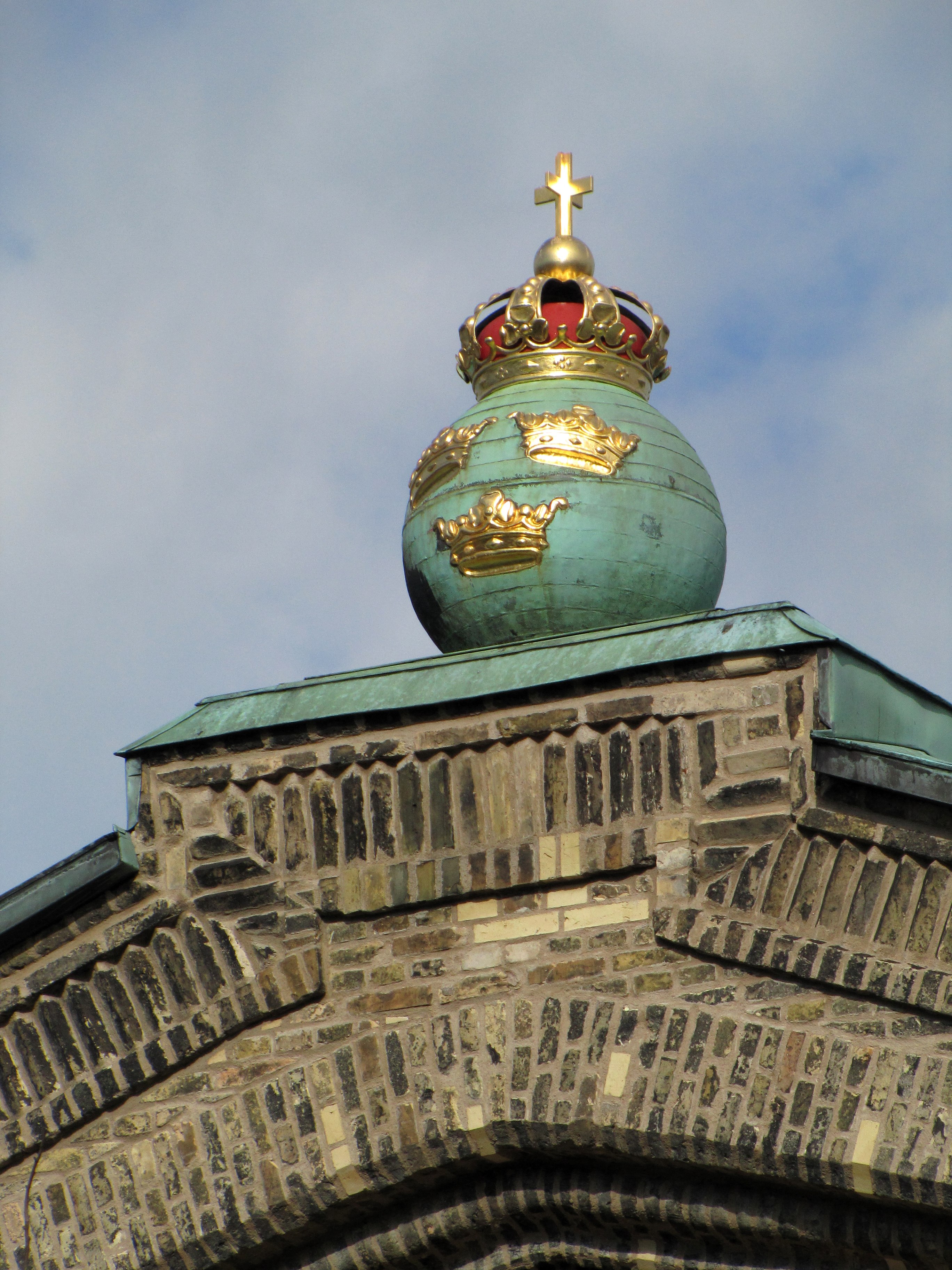 An old version of the swedish small coat of arms on top of the west gable of Göteborg central railway station.